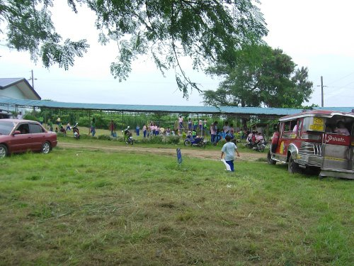 the pathway of Asian Computer College-Annex with some students.